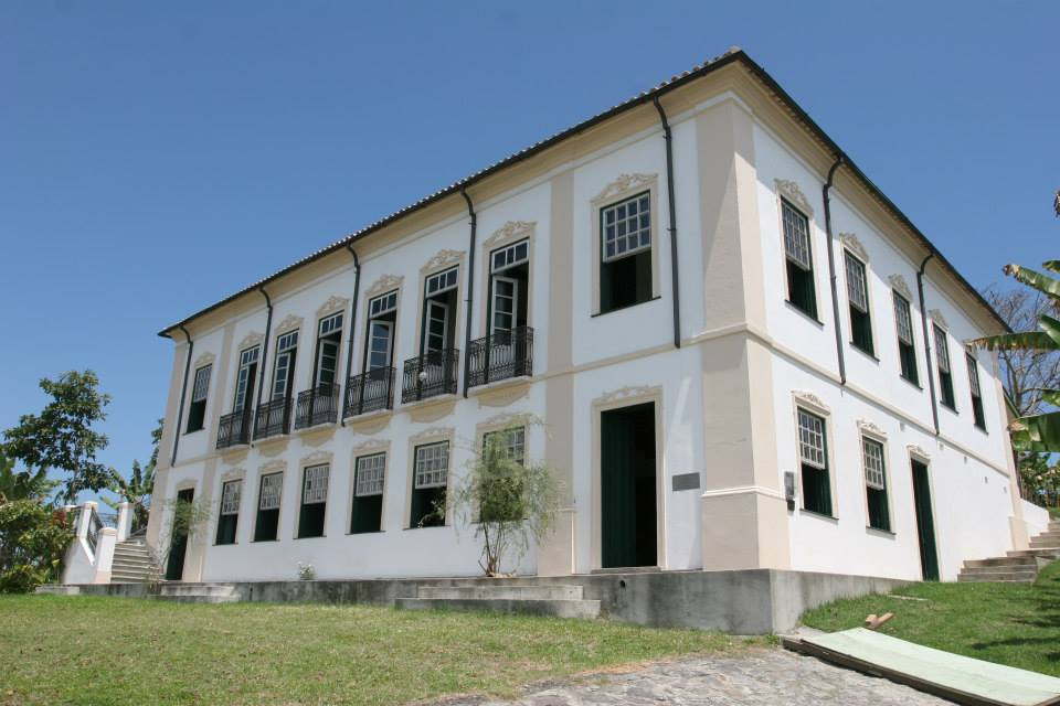 Mansion Paradise, above of the church of Santo Amaro